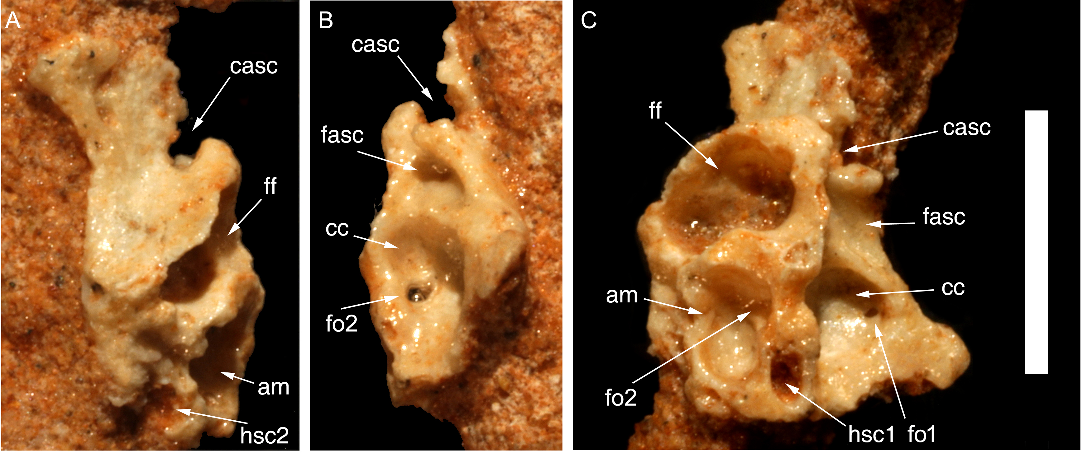 Partial right medial wall of braincase of Hulsanpes perlei (ZPAL MgD-I/173) in anterior view (A), posterior view (B), and medial view (C). Abbreviations: am, ampulla; casc, cleft of the anterior semicircular canal; cc, common crus; fasc, fossa of the anterior semicircular canal; ff, floccular fossa; fo, foramen; hsc, passage of the horizontal semicircular canal. Scale bar: 5 mm.